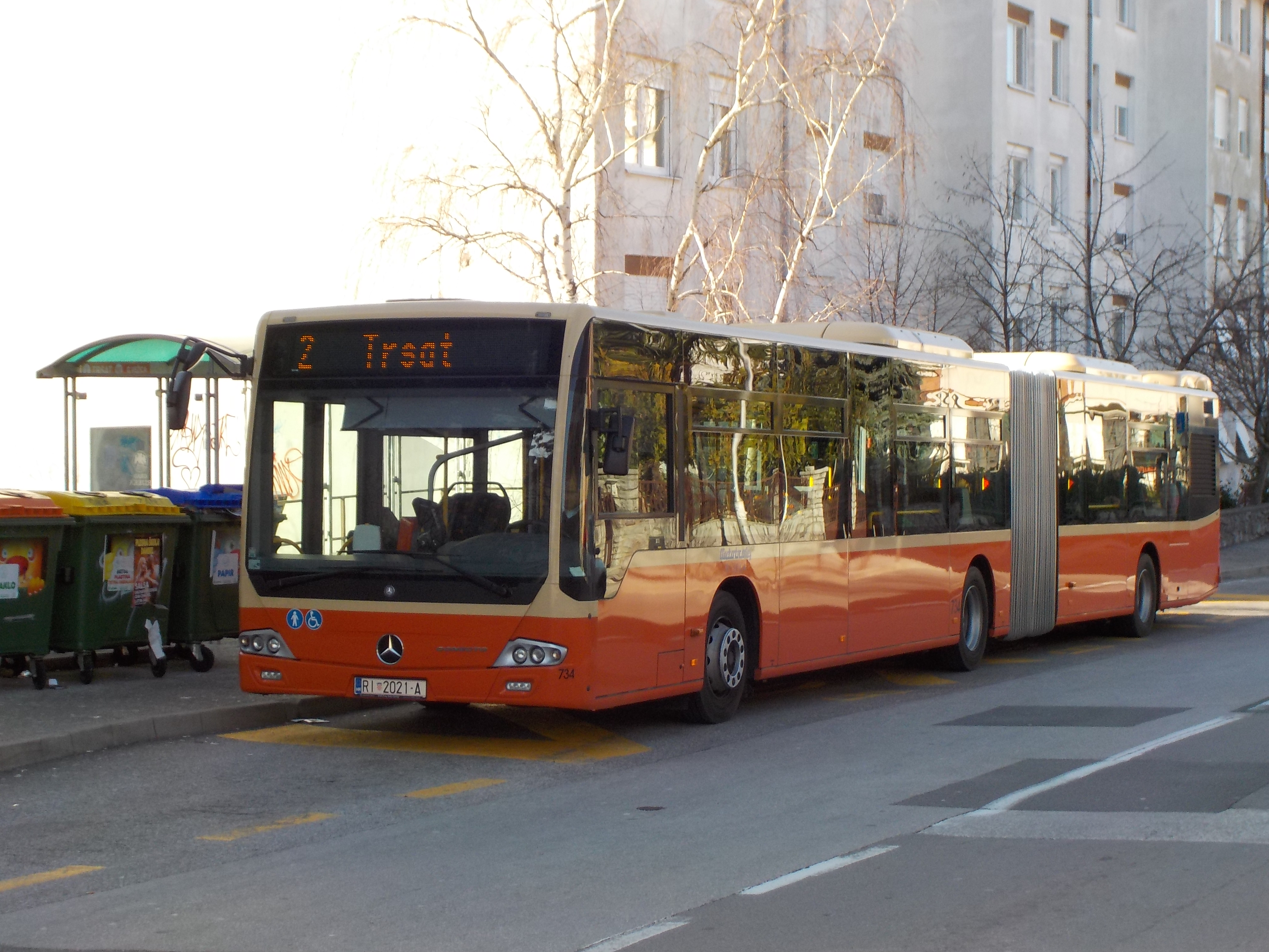 Rijeka bus Mercedes-Benz Conecto G (newer edition)